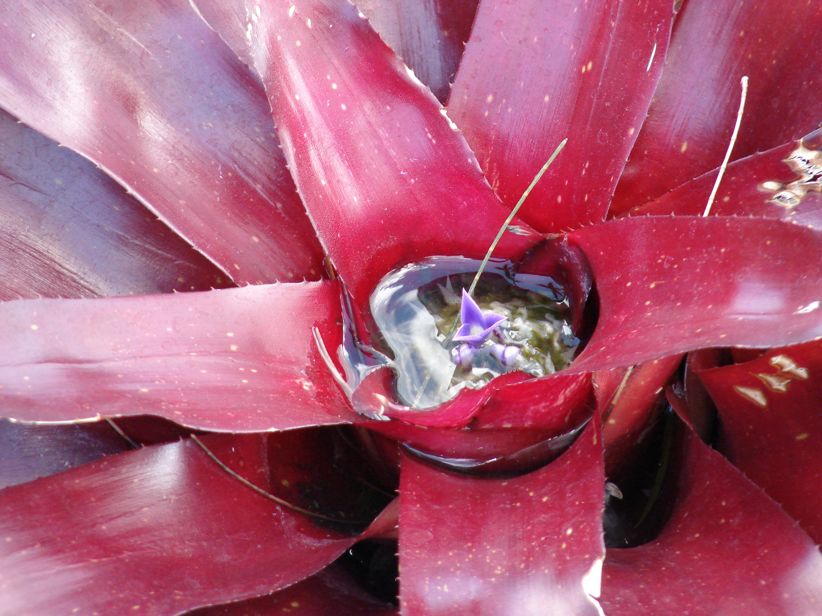 Unknown bromeliaceae (habit). Location: Maui, Pukalani